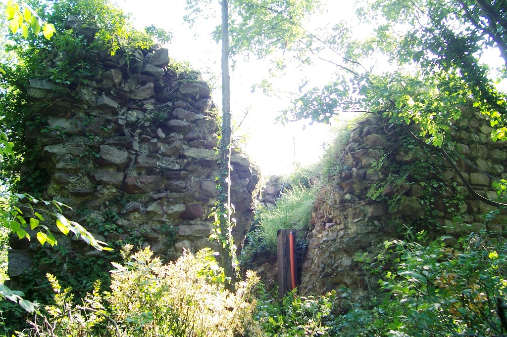 Ruins of the Castle of Montecchio. Montecchio, Val Camonica, Italy.